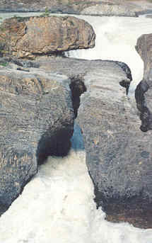 Natural Bridge, Yoho National Park, British Columbia, Canada. Image was reduced to 40% of original size to minimize file size.